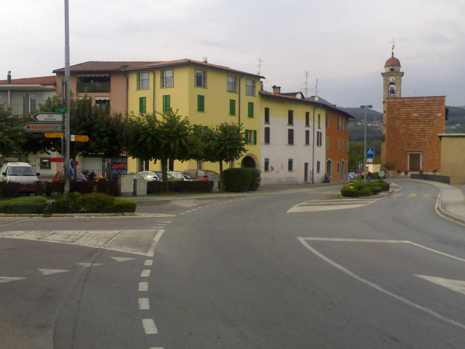 Image of Genestrerio, Switzerland. Taken on the 24 September 2006